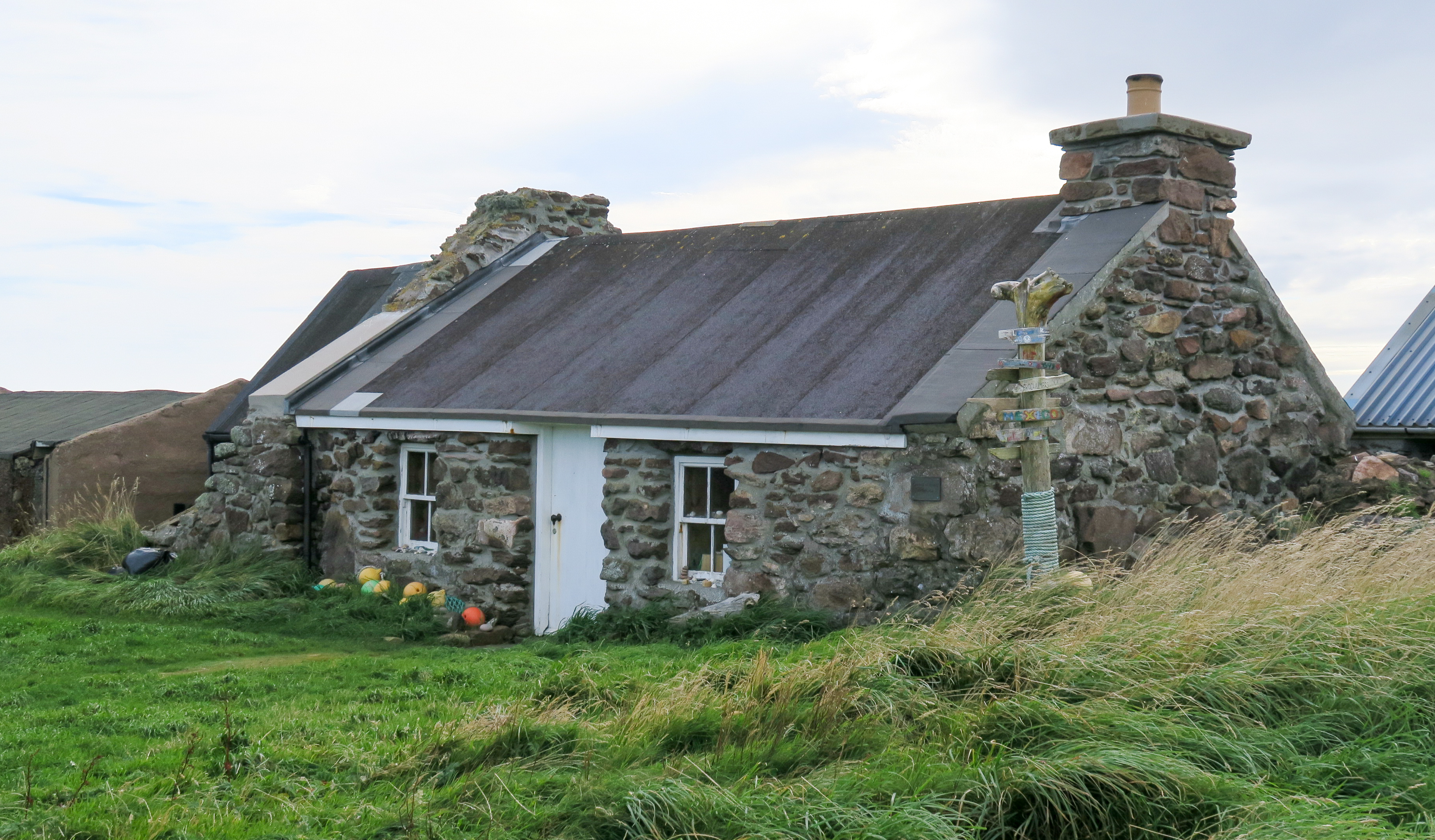 House of John Williamson (~1730-1803), nicknamed "Johnnie Notions", in Hamnavoe, Eshaness, Shetland